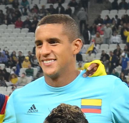 São Paulo - Colômbia vence a Nigéria por 2x0 na Arena Corinthians (Rovena Rosa/Agência Brasil)